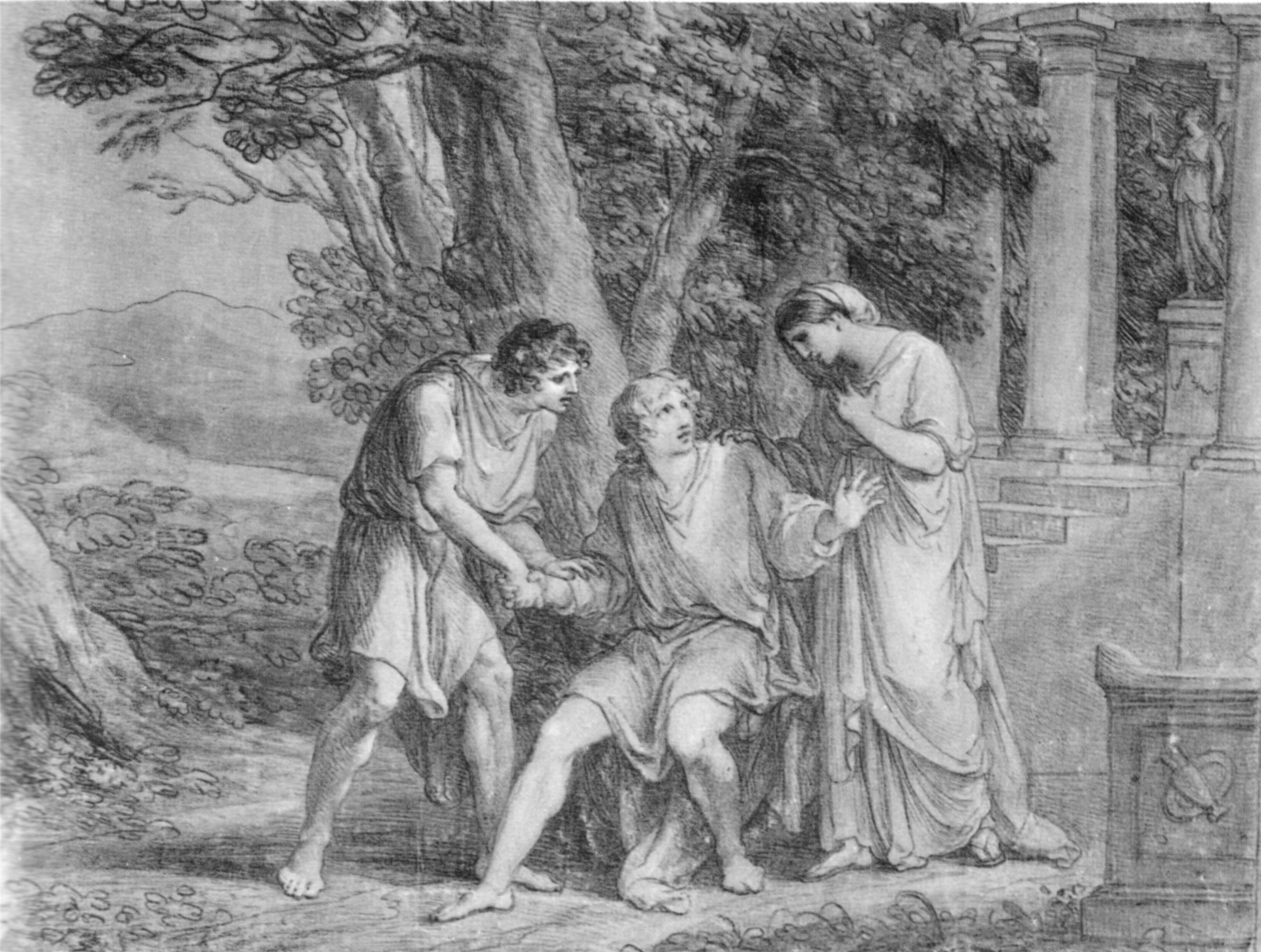 Act three, scene three from Goethe's Iphigenia in Tauris. Drawing. Première of final version of play in Weimar in 1802. Goethe, playing Orestes, seated in the centre.